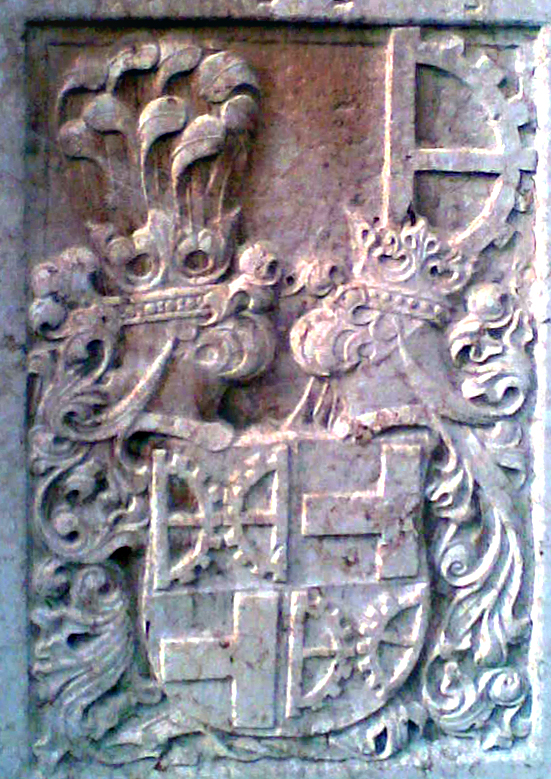 coat of arms from the german "von Königsberg"